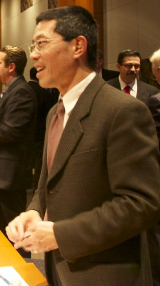 Dr. Yet-Ming Chiang (right) of the Massachusetts Institute of Technology, one of the panel members during day one of the NTSB's Lithium Ion Batteries in Transportation forum, mingles with other panelists and audience members.